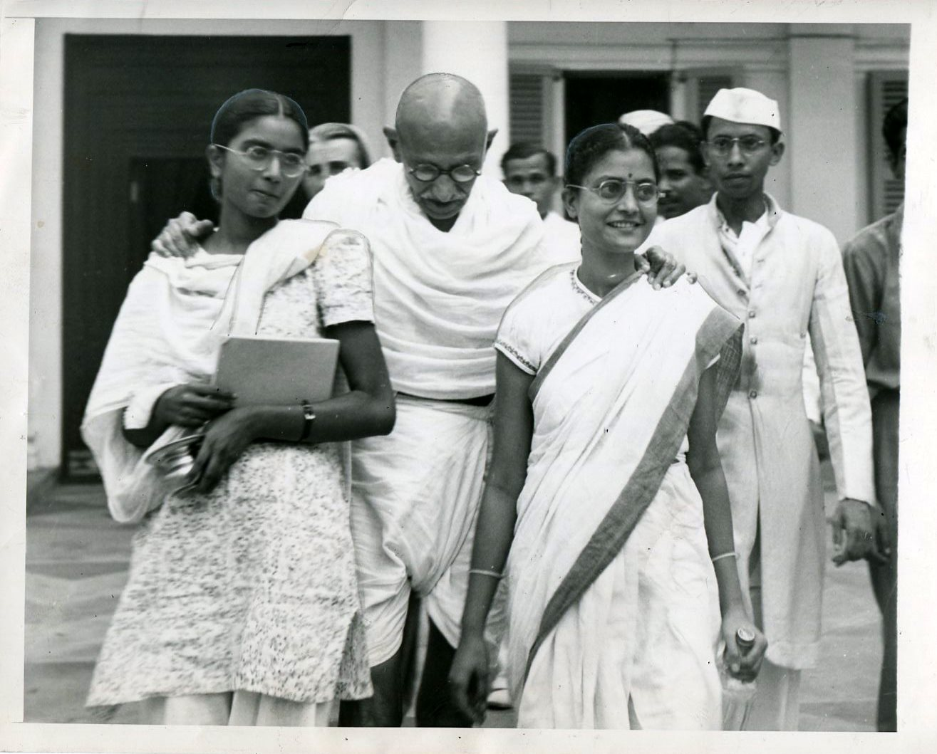 A news bureau photo, Oct. 6, 1947 Source: ebay, Aug. 2011